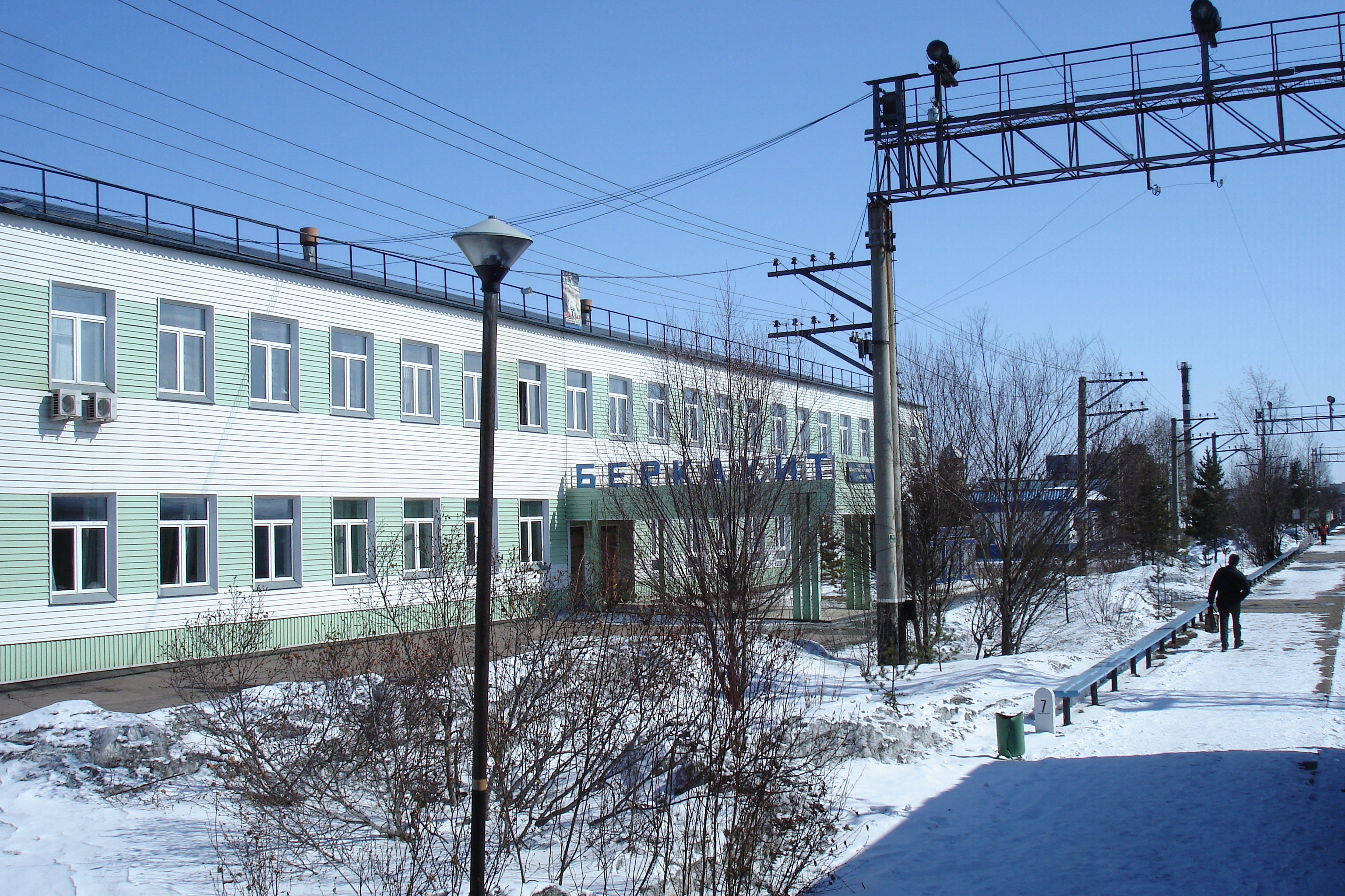 Berkakit - urban type settlement in Neryungrinsky District, Sakha (Yakutia) Republic, Russia. Berkakit railway station on Amur Yakutsk Mainline